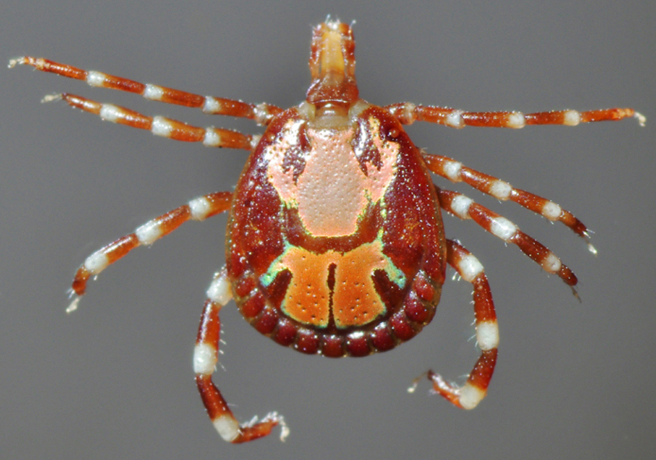 Amblyomma male hard-tick, showing enamel pattern on its large scutum and white bands on its legs.